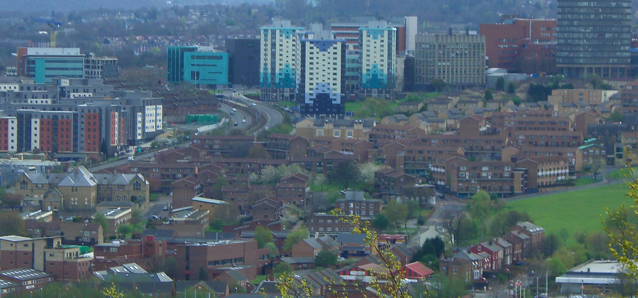 Netherthope, a suburb of Sheffield seen from Parkwood Springs